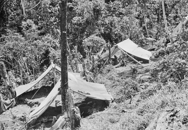 Efogi North, Papua, 1942-10-15. The tents of 2/4th Field Ambulance are set up at a temporary camp on a partially cleared slope in the jungle along the Kokoda Trail. The Field Ambulance was delayed here for a day in its progress along the trail by the need to perform an emergency arm amputation. (Donor A. Hobson)